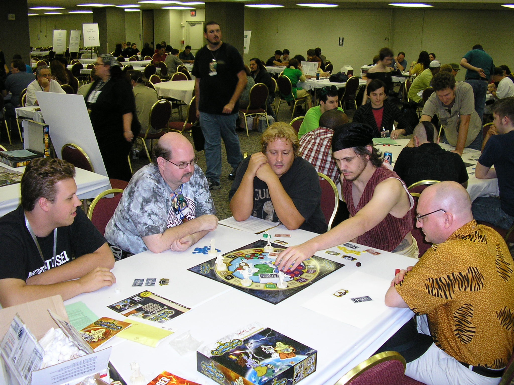 Ben Radford at Dragon*Con during the games premiere 2008 in Atlanta